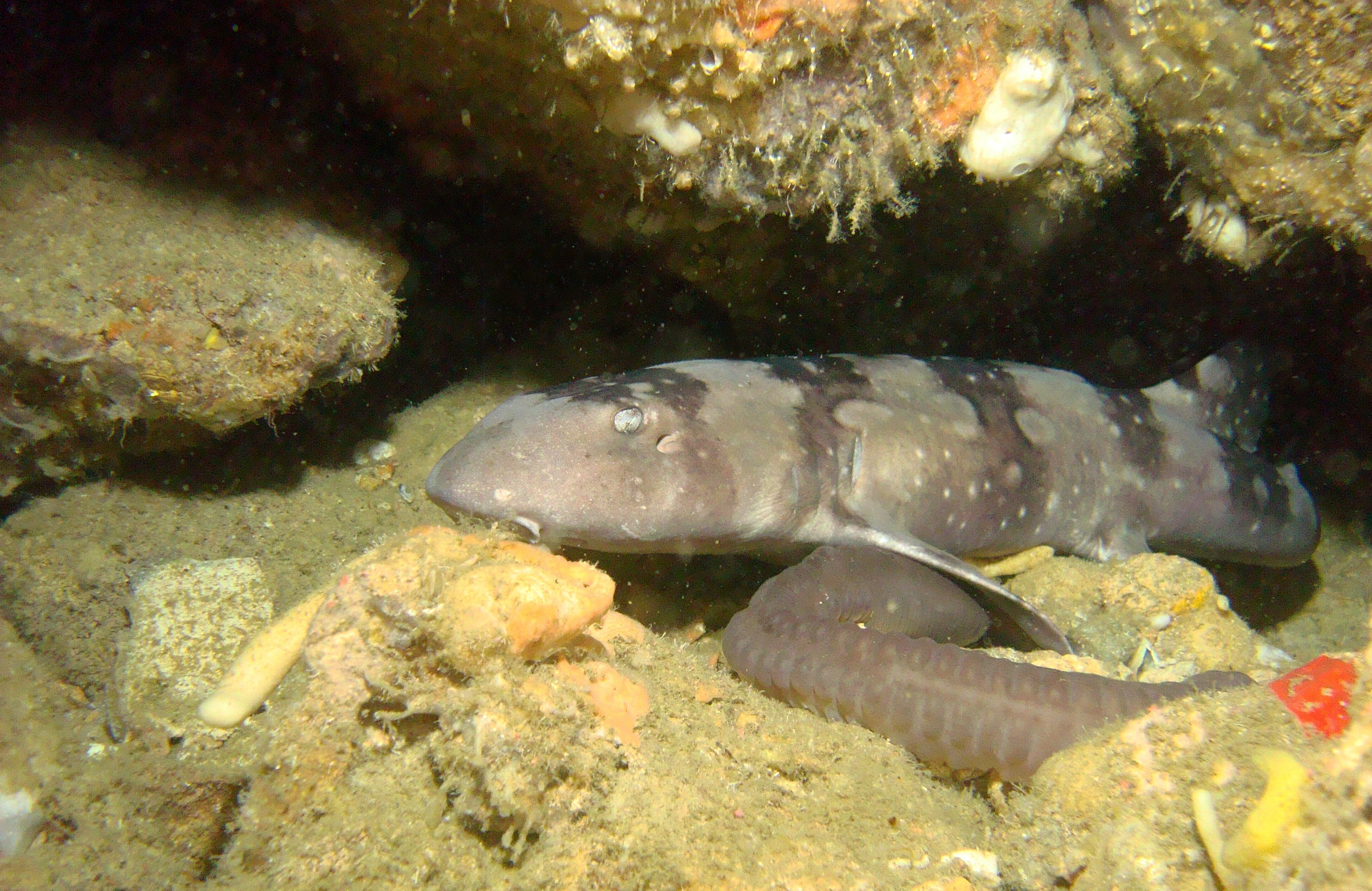 Whitespotted Bambooshark Gato Island Philippines